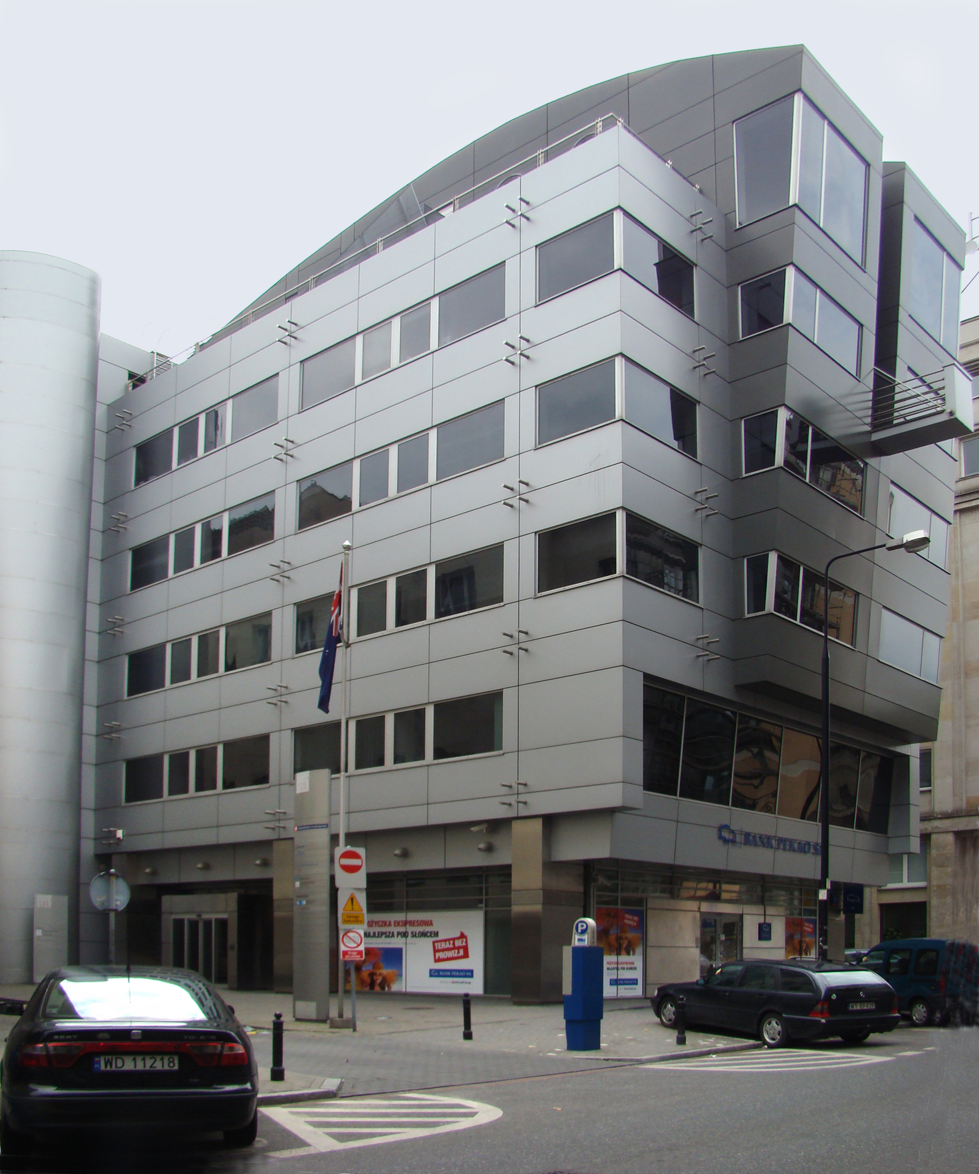 Australian Embassy, Warsaw, 11 Nowogrodzka St.